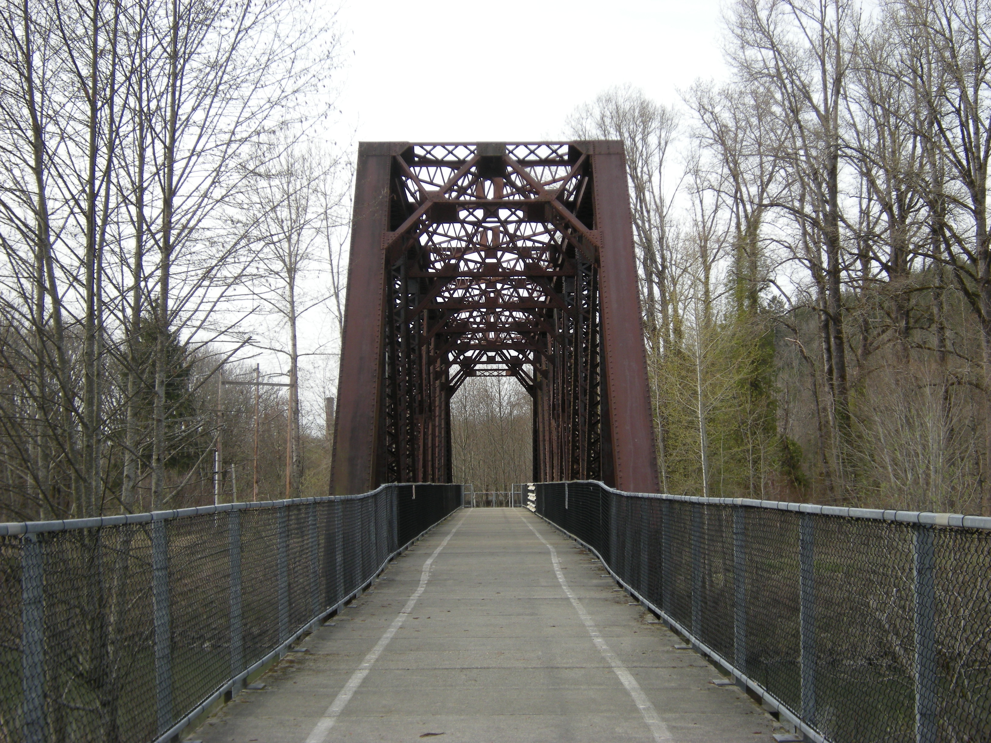 Looking at the Reinig Bridge from roughly the SSE, Snoqualmie Valley Regional Trail.